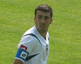 Romanian football player Dacian Varga